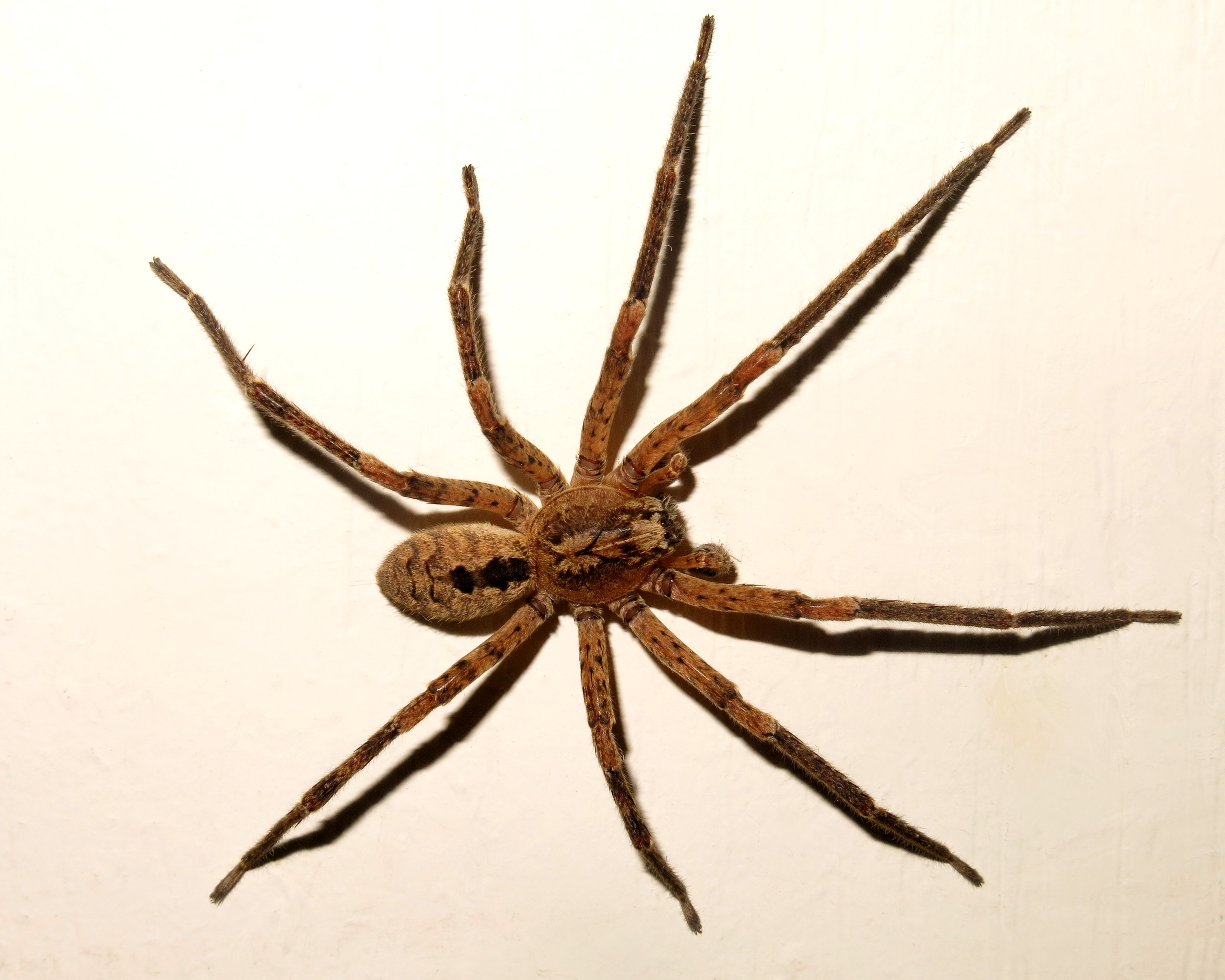 Picture of Mediterranean Spider (Zoropsis Spinimana)